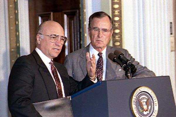 President Bush shares the podium with Secretary Yeutter at a briefing of the National Association of Agricultural Journalists in the Indian Treaty Room of the White House.